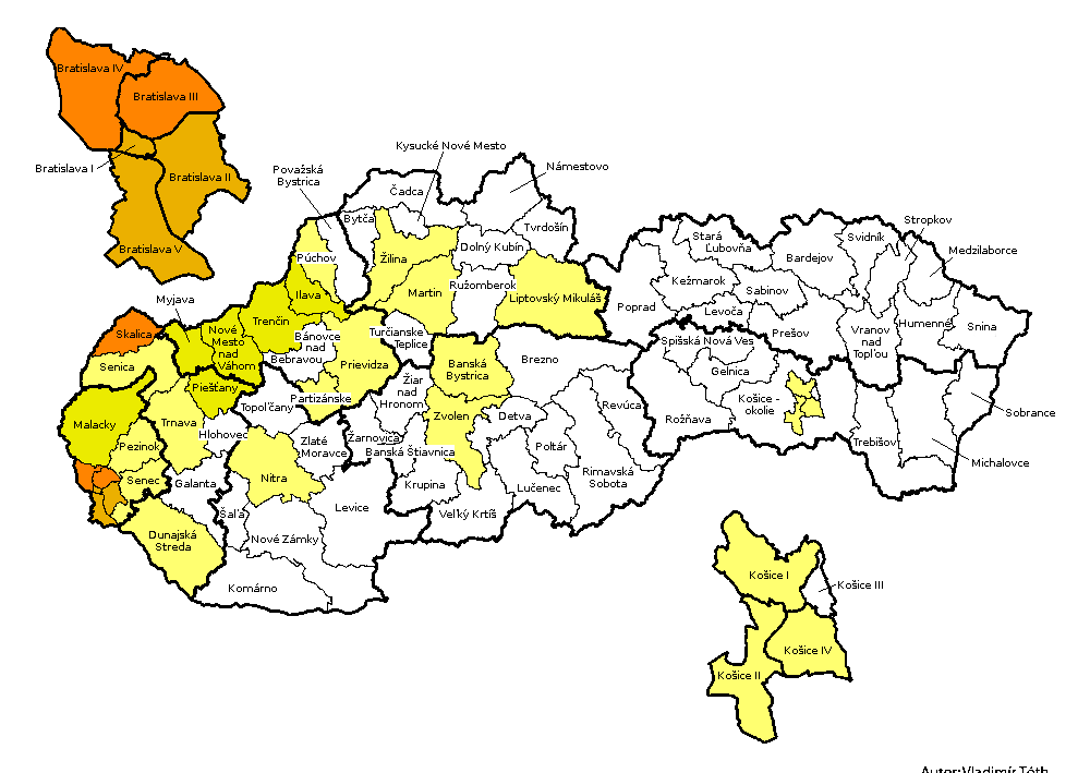 Moravian nationality by districts in Slovakia according to the census carried out in 2011.